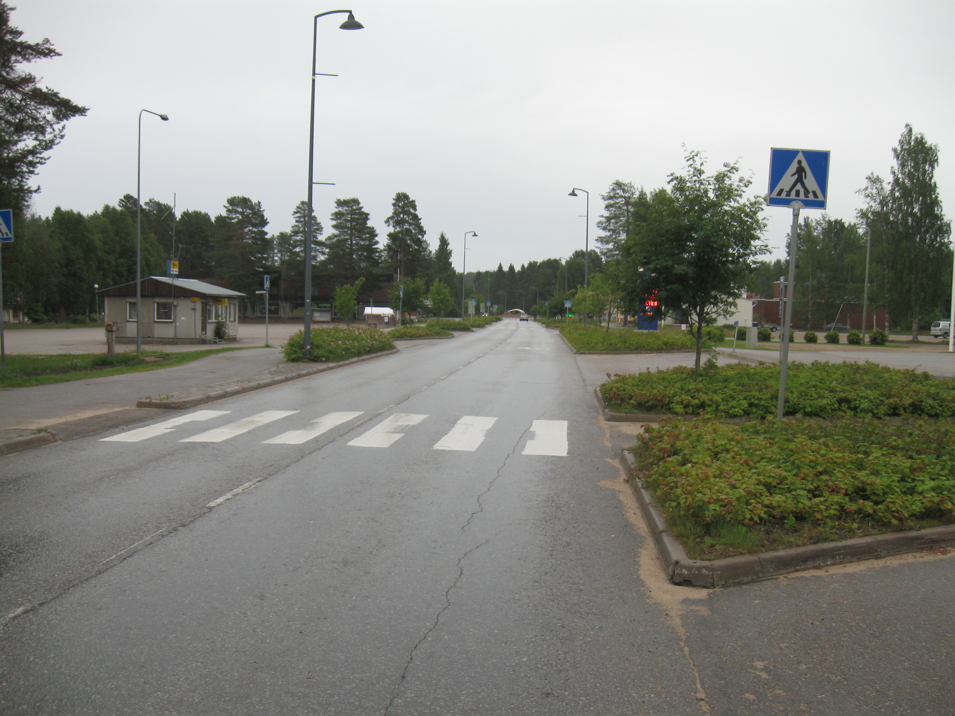 Hyryntie (regional road 891) at the centre of Hyrynsalmi, Finland, seen towards South-East.